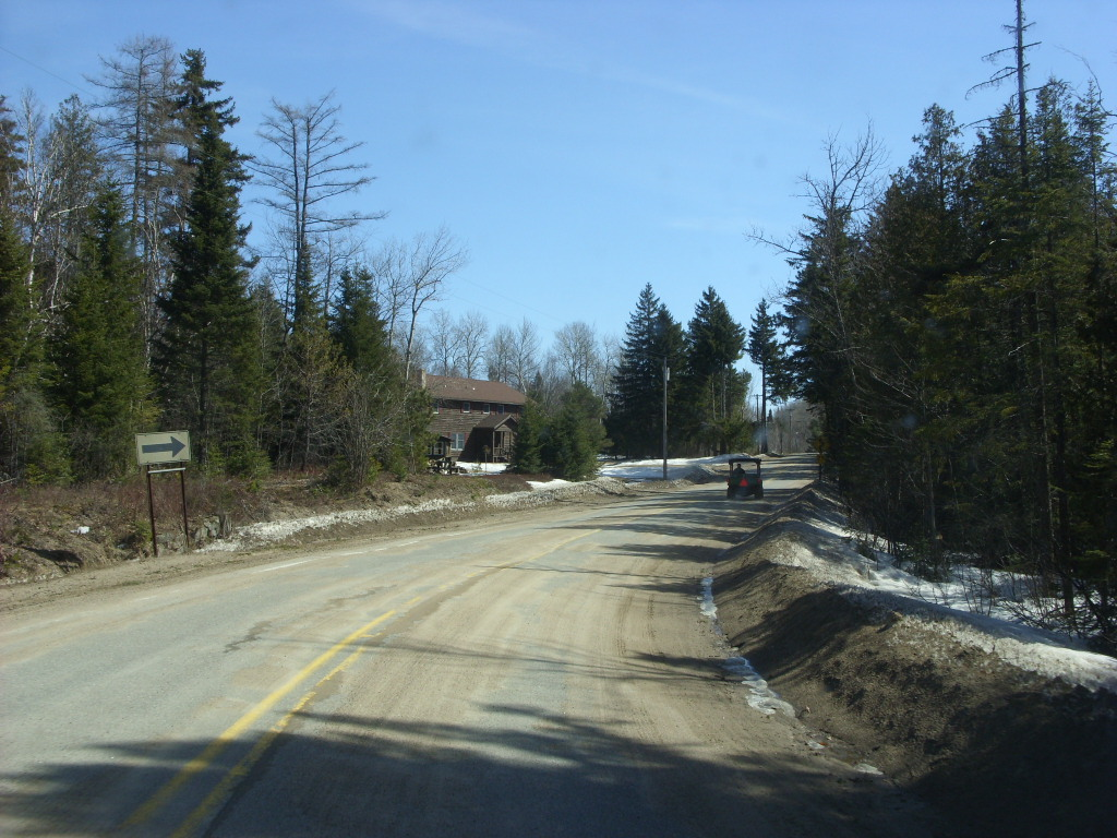 A curve on Franklin County Route 26 (former New York State Route 99) eastbound in Franklin.